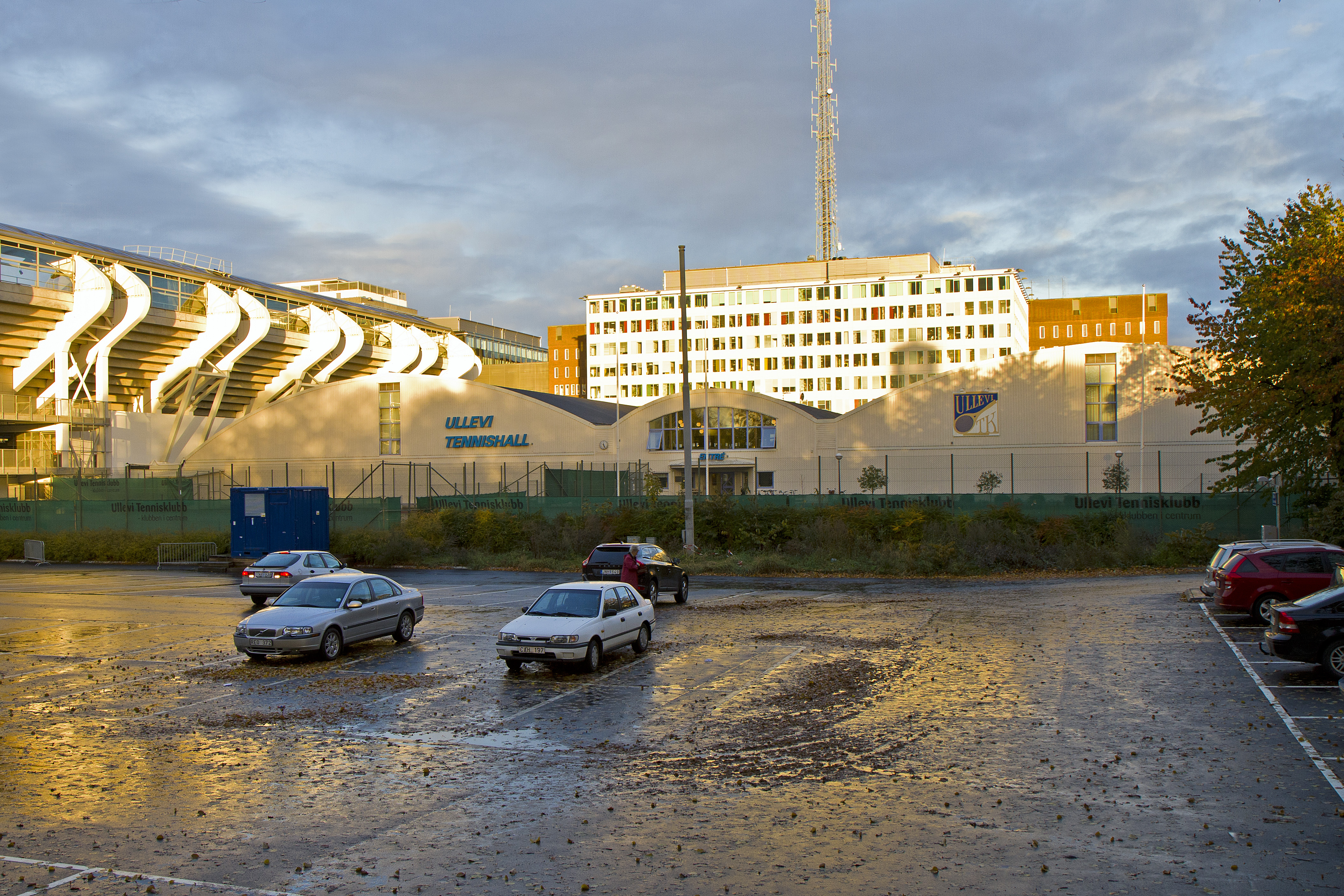 Ullevi Tennis Club